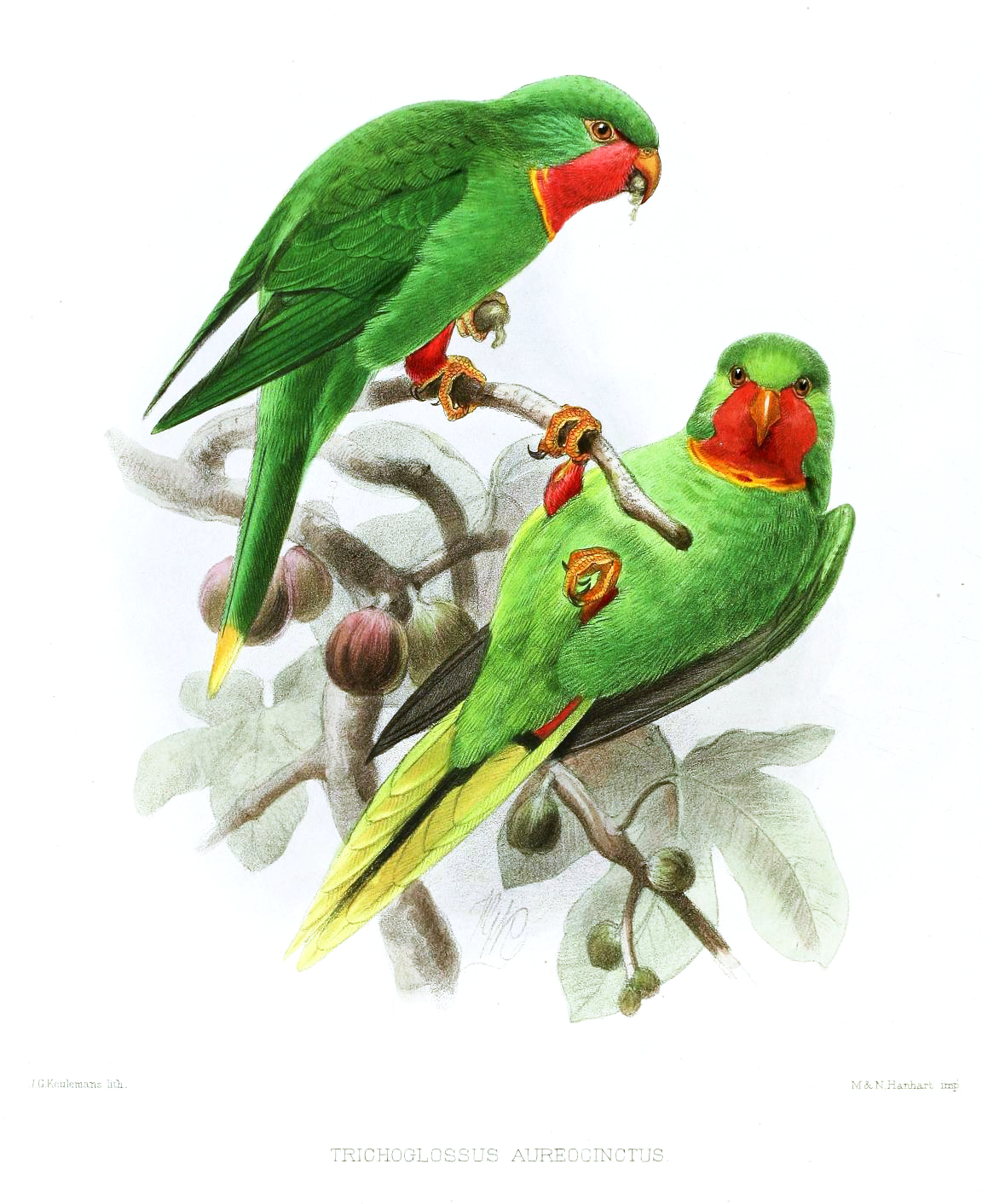 Trichoglossus aureocinctus=Charmosyna aureicincta